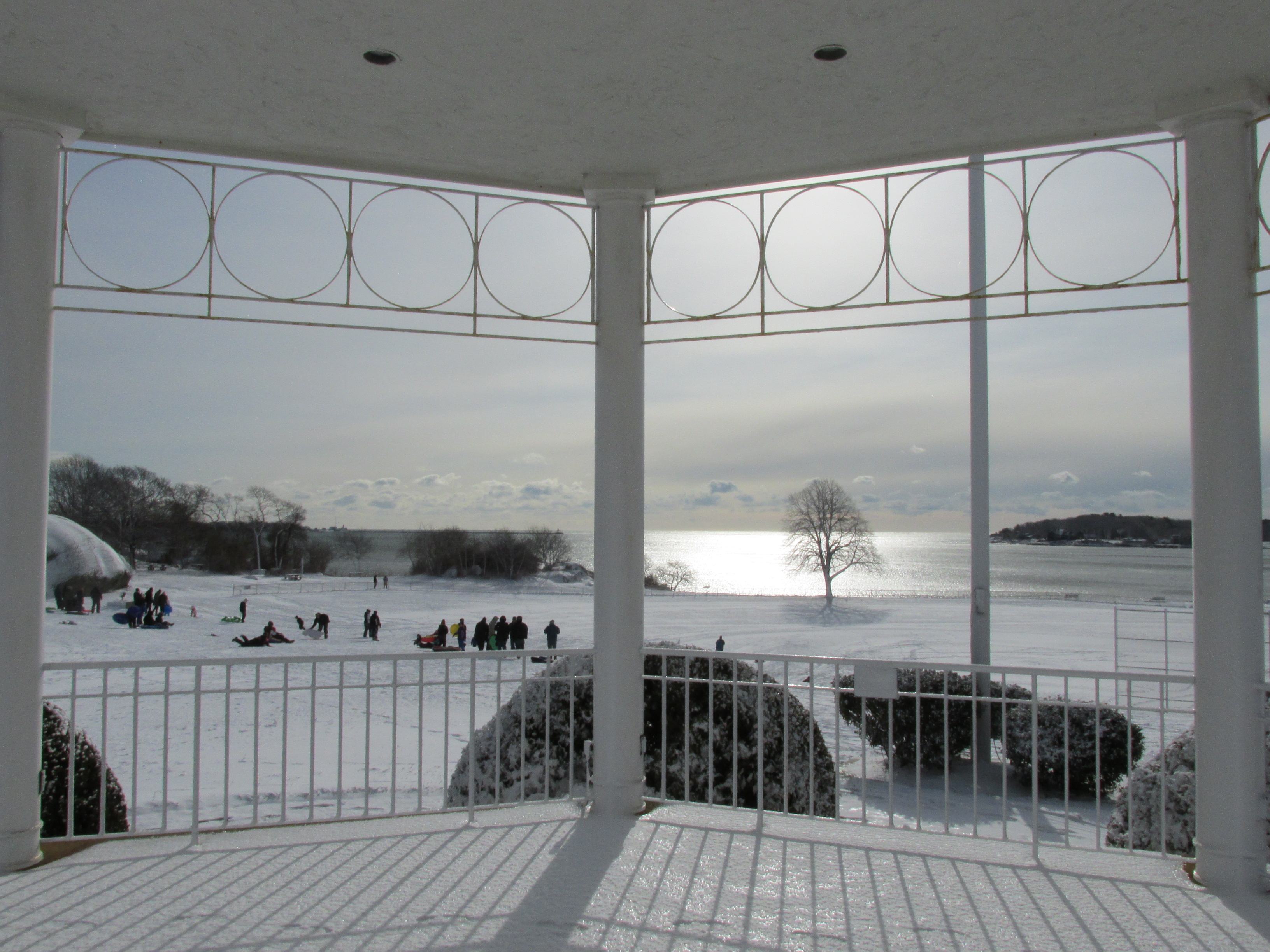 From the Gazebo, Stage Fort Park, Gloucester Massachusetts